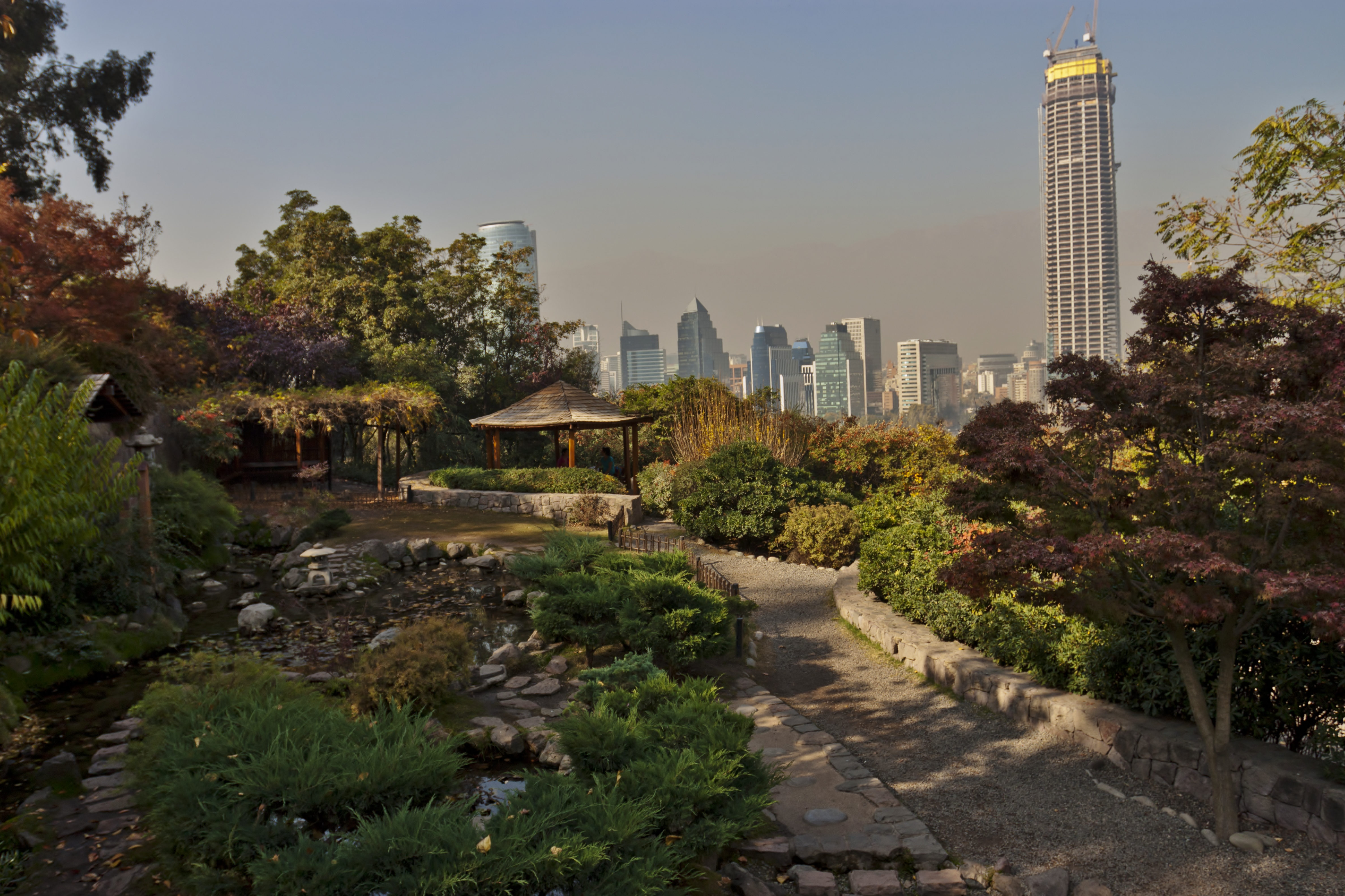 Taken at Latitude/Longitude:-33.423812/-70.632299. 0.80 km South Lo Contador Región Metropolitana Chile [ (Map link)